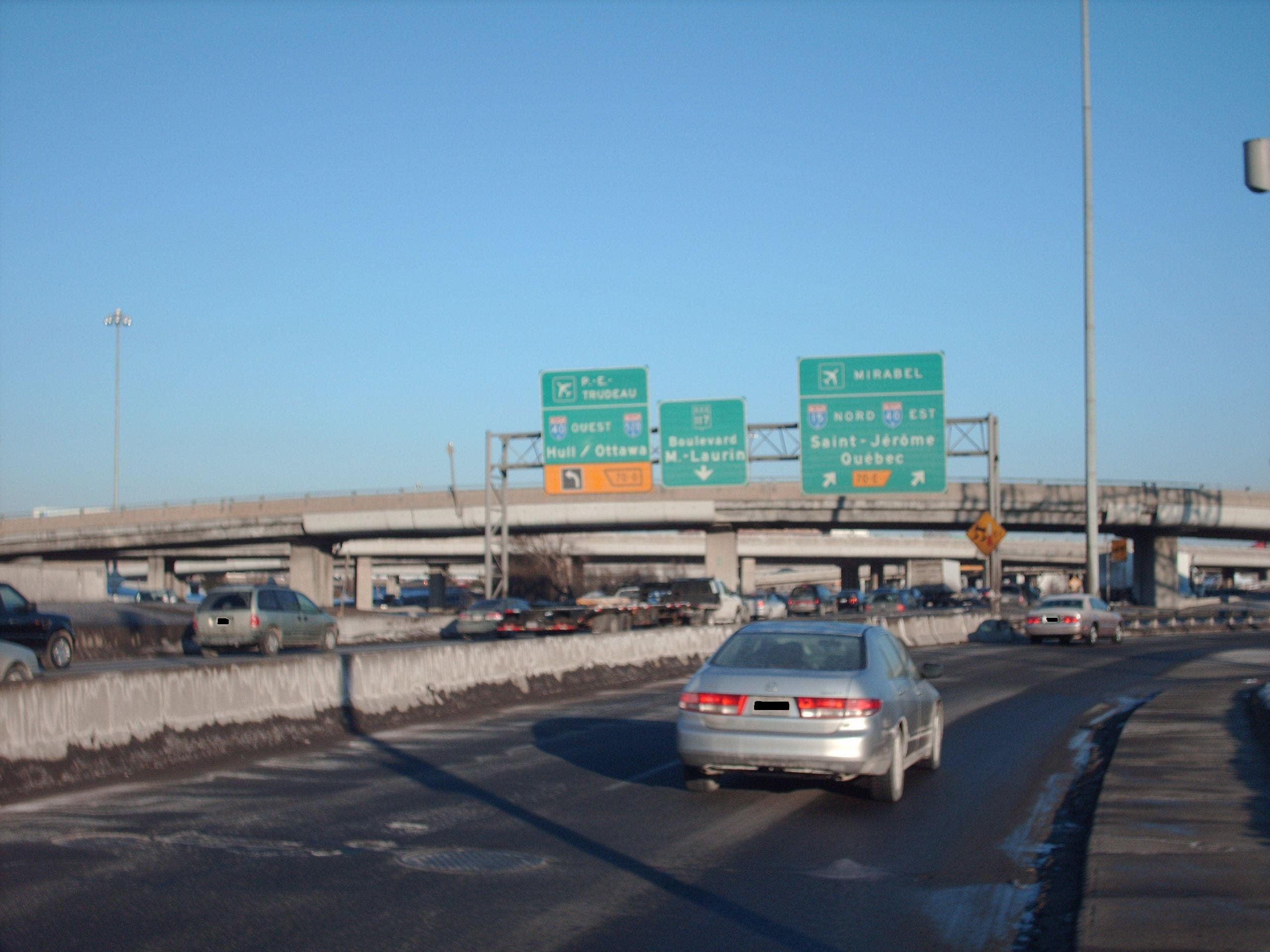 Autoroute Décarie road signs at the Décarie Interchange, Montreal, Quebec, Canada.